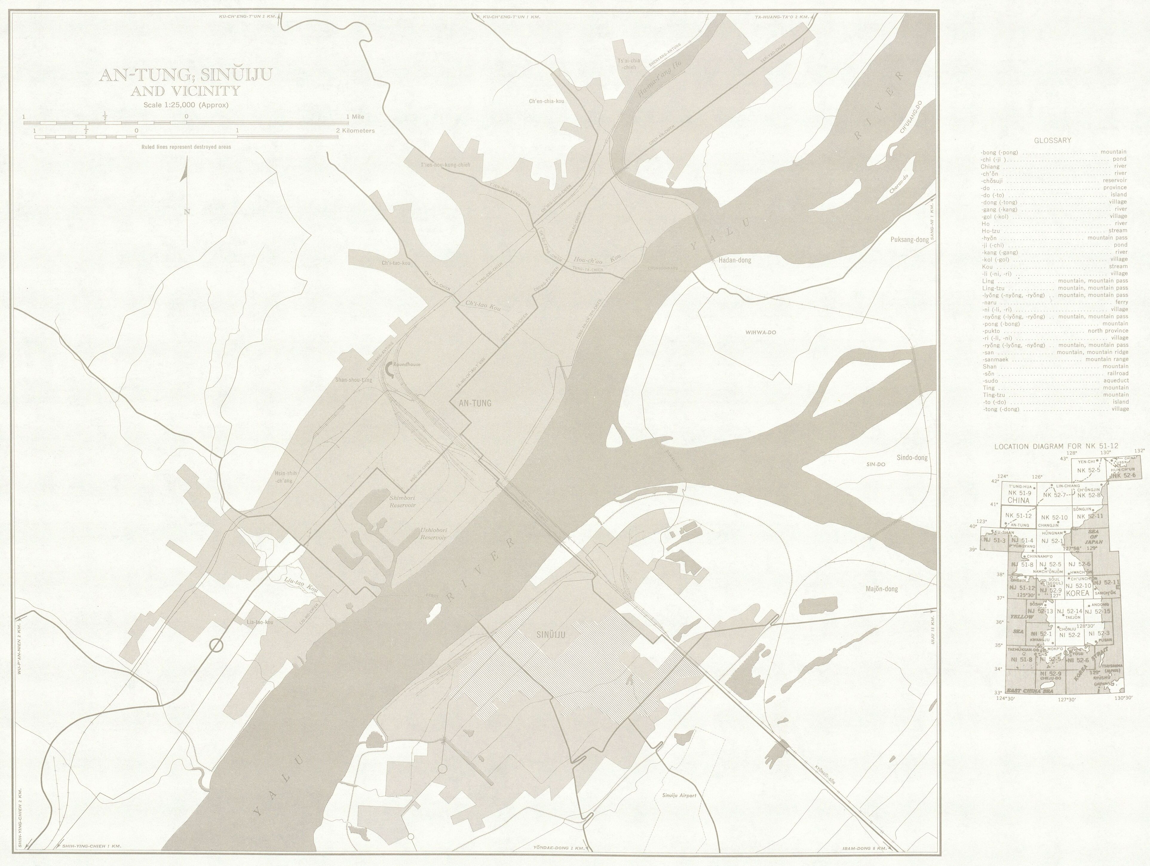 Manchuria AMS Topographic Maps